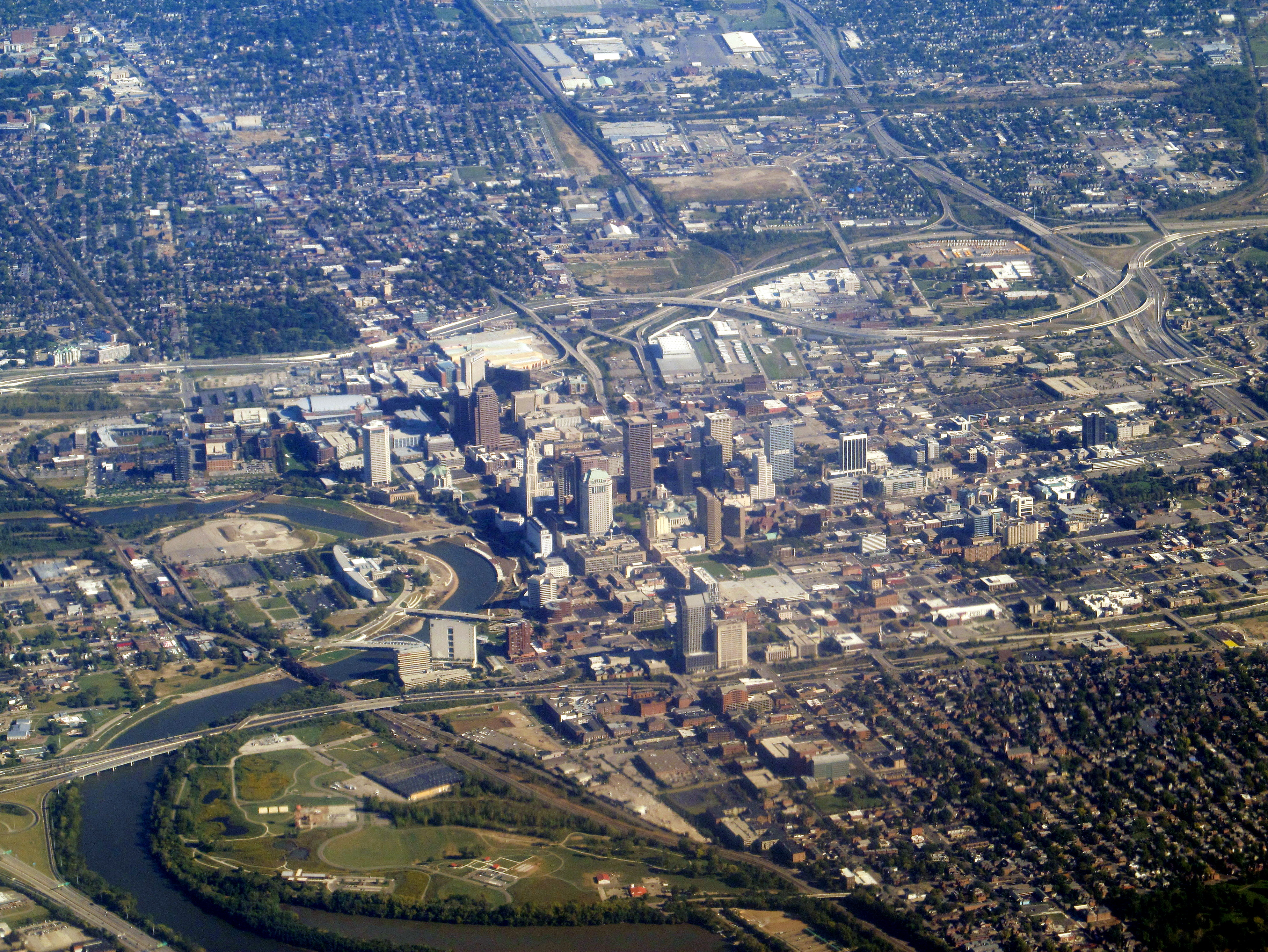 Aerial view of Columbus, Ohio from the south in September 2015